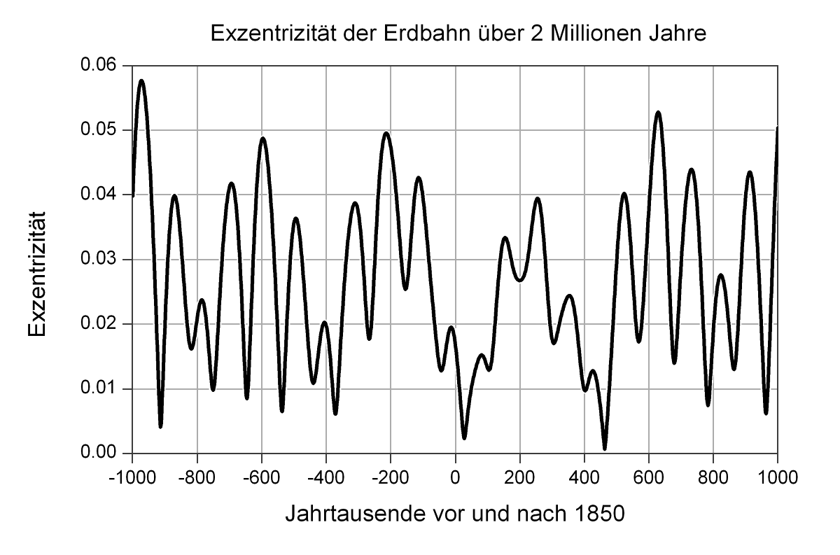 The diagram shows the long-term variation of the eccentricity of Earth's orbit, plotted over two million years. Graph made by myself. Data computed using the method described by J. Meeus (More Mathematical Astronomy Morsels, ISBN 0-943396-74-3, ch. 33).